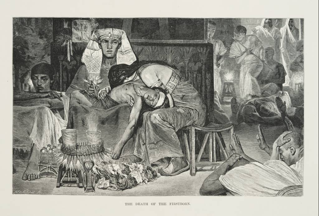 Stylized depiction of a young boy being killed.